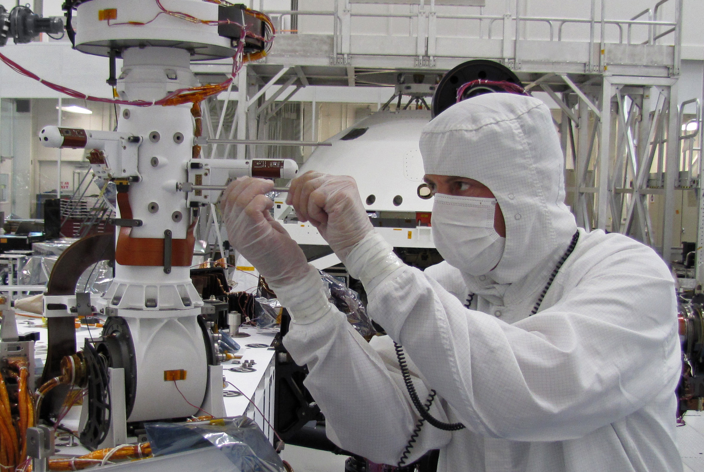 Sensors on two finger-like mini-booms extending horizontally from the mast of NASA's Mars rover Curiosity will monitor wind speed, wind direction and air temperature. One also will monitor humidity; the other also will monitor ground temperature. The sensors are part of the Rover Environmental Monitoring Station, or REMS, provided by Spain for the Mars Science Laboratory mission. In this image, the spacecraft specialist's hands are just below one of the REMS mini-booms. The other mini-boom extends to the left a little farther up the mast. The image was taken during installation of the instrument in September 2011, inside a clean room at NASA's Jet Propulsion Laboratory, Pasadena, Calif. REMS also includes an ultraviolet-light sensor on the rover deck and, inside the body of the rover, an air-pressure sensor and the instrument's data recorder and electronic controls.